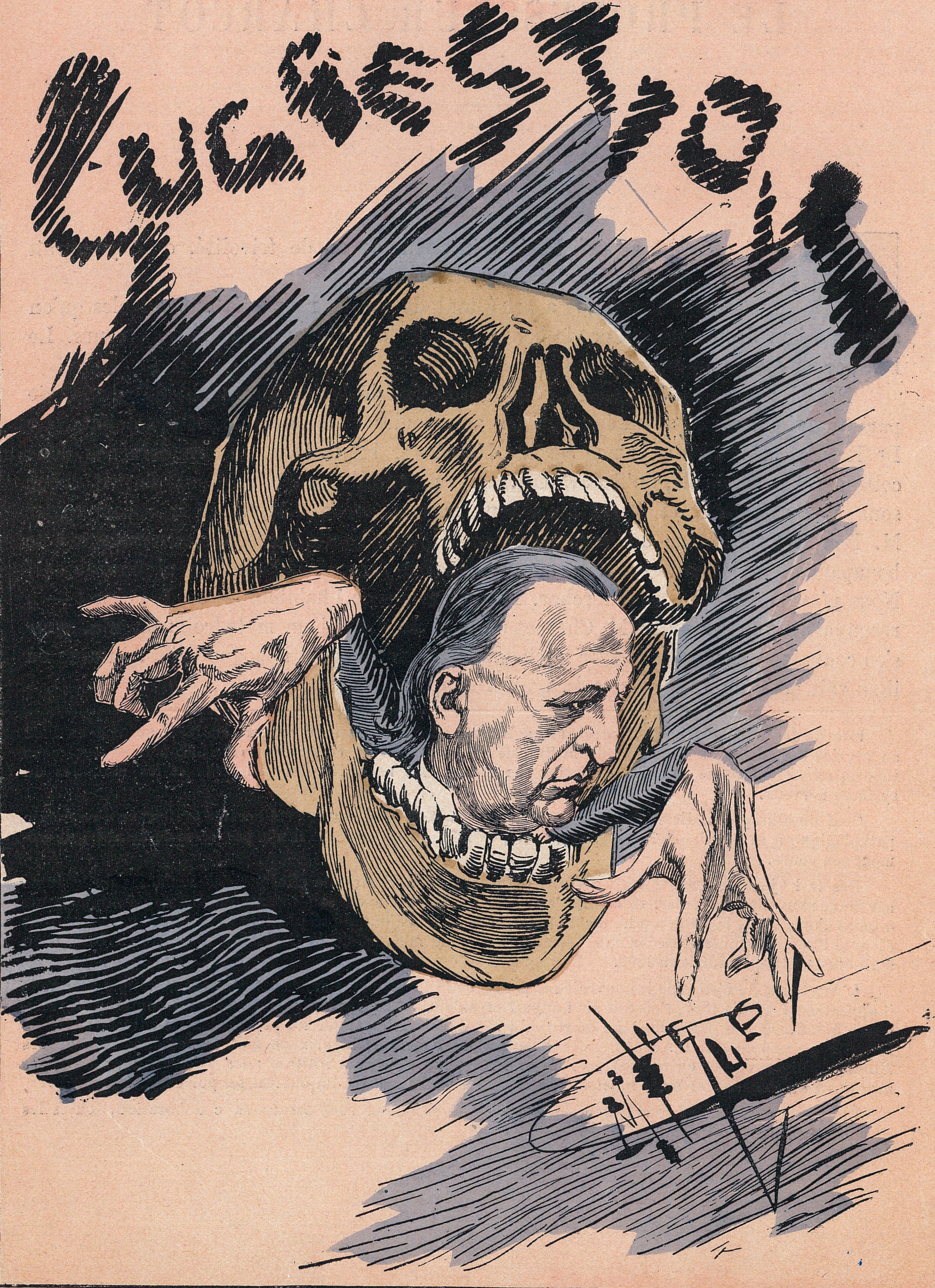 Caricature de Jean-Martin Charcot